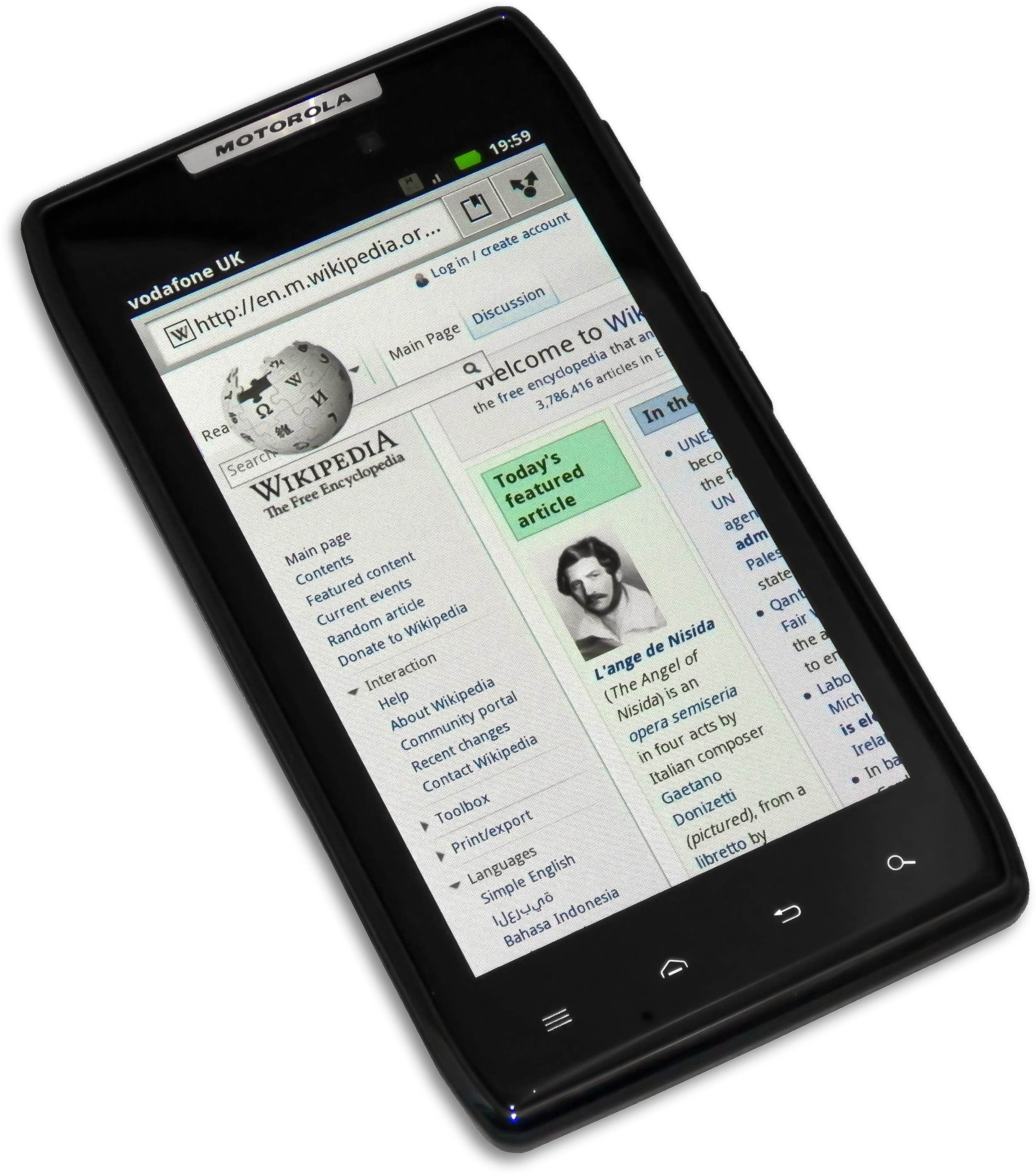 Motorola RAZR XT910 showing Wikipedia home page